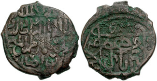 Queen Rasudan. 11223-145. Æ Fals (22mm, 5.51 gm). Tiflis mint. Arabic legend around Georgian "RSN" monogram / Four-line Arabic legend. MWI 2385. VF, brown and green patina.